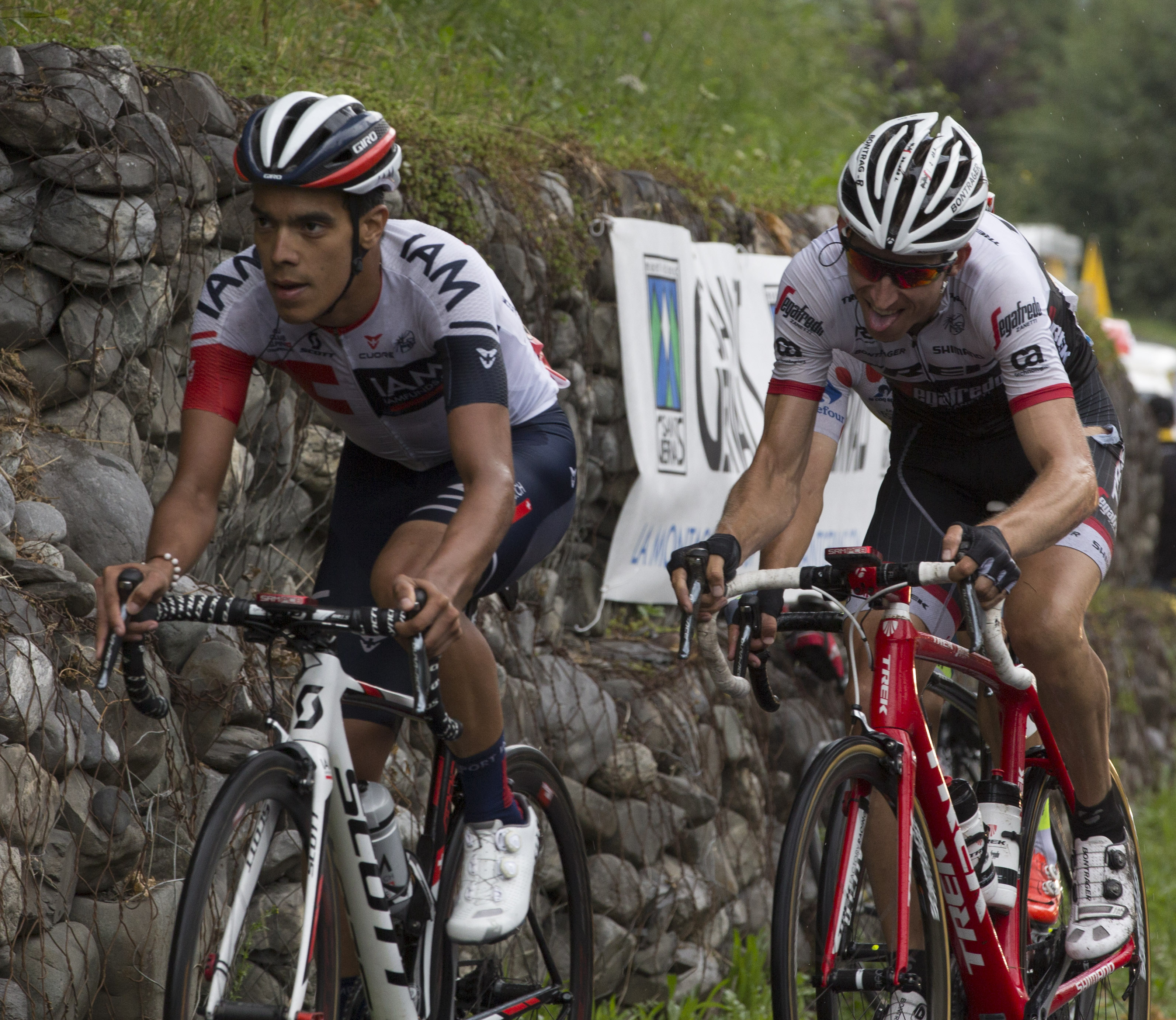 Stage 19 - Albertville to Saint-Gervais Mont Blan